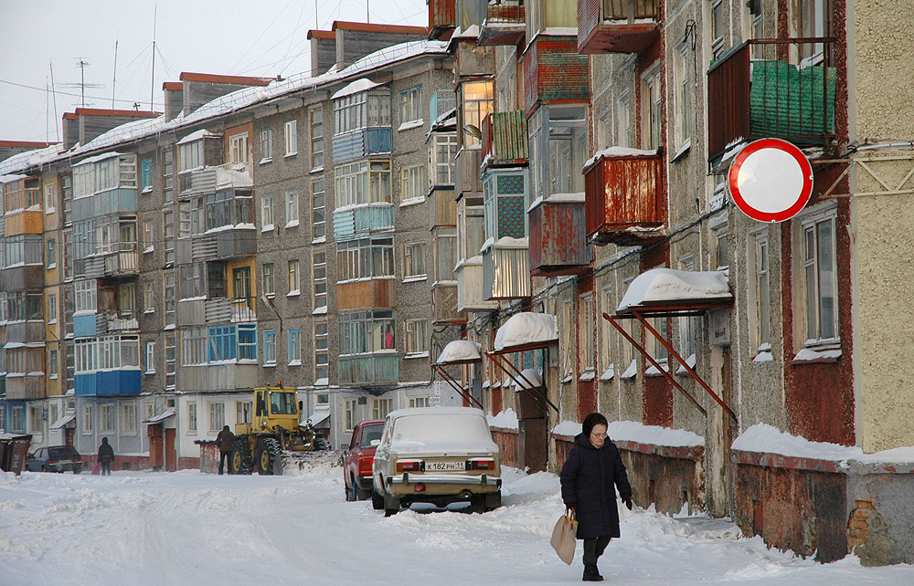 View of living district of Vorkuta